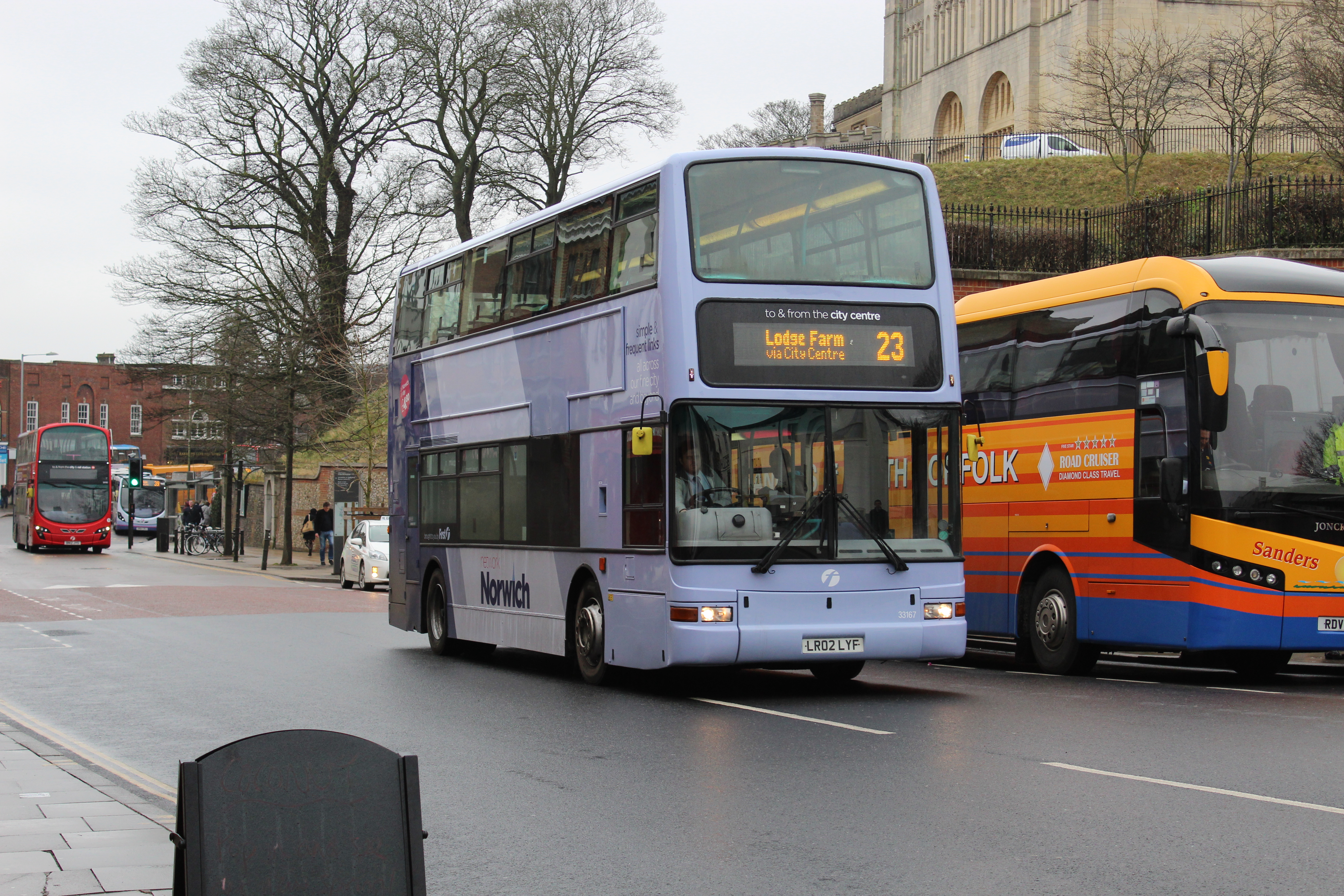 A Plaxton President-bodied Dennis Trident bus carrying the lilac-fronted generic Network Norwich livery.